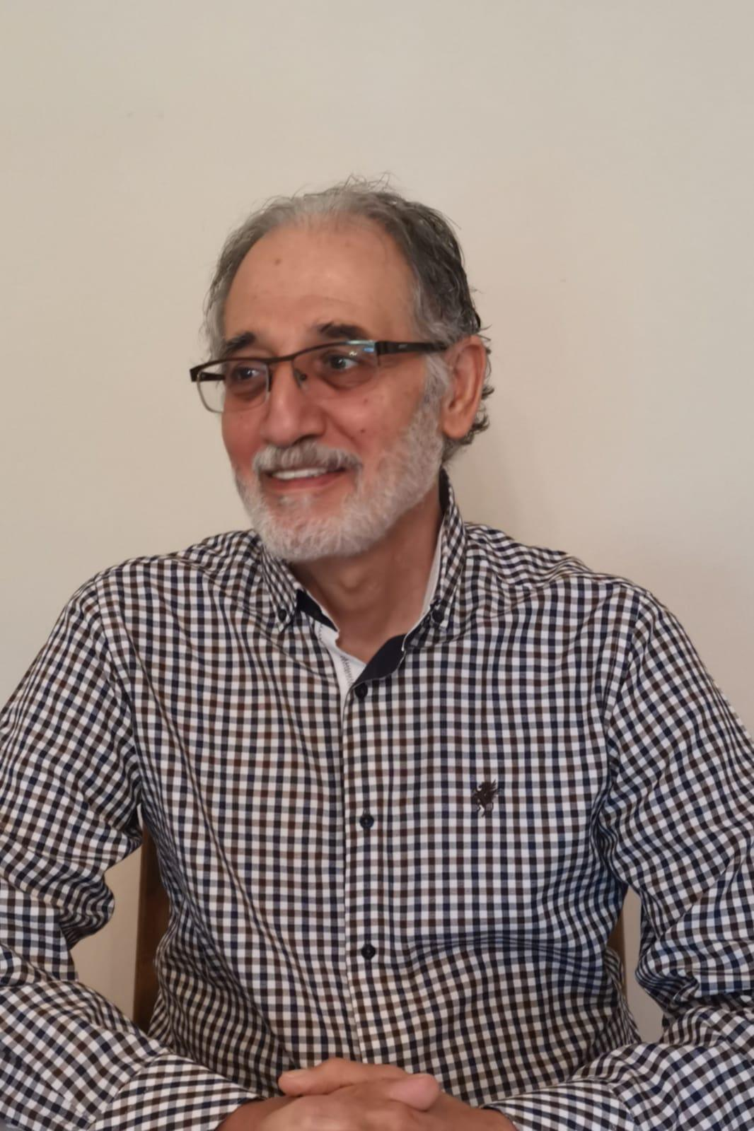 Farouk-Ismail-kurdish-syrian-philologist